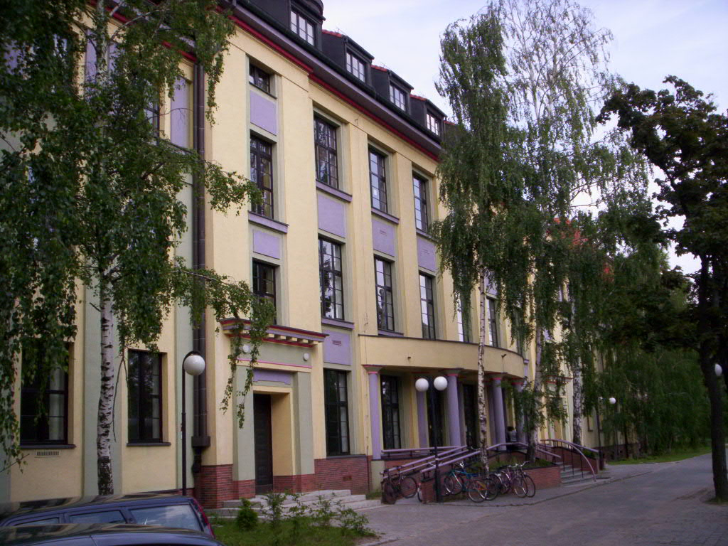 Social Sciences Faculty of the University of Wrocław, Koszarowa street, former Soviet Army barracks. Picture taken on June 22, 2005 by Paweł Dembowski